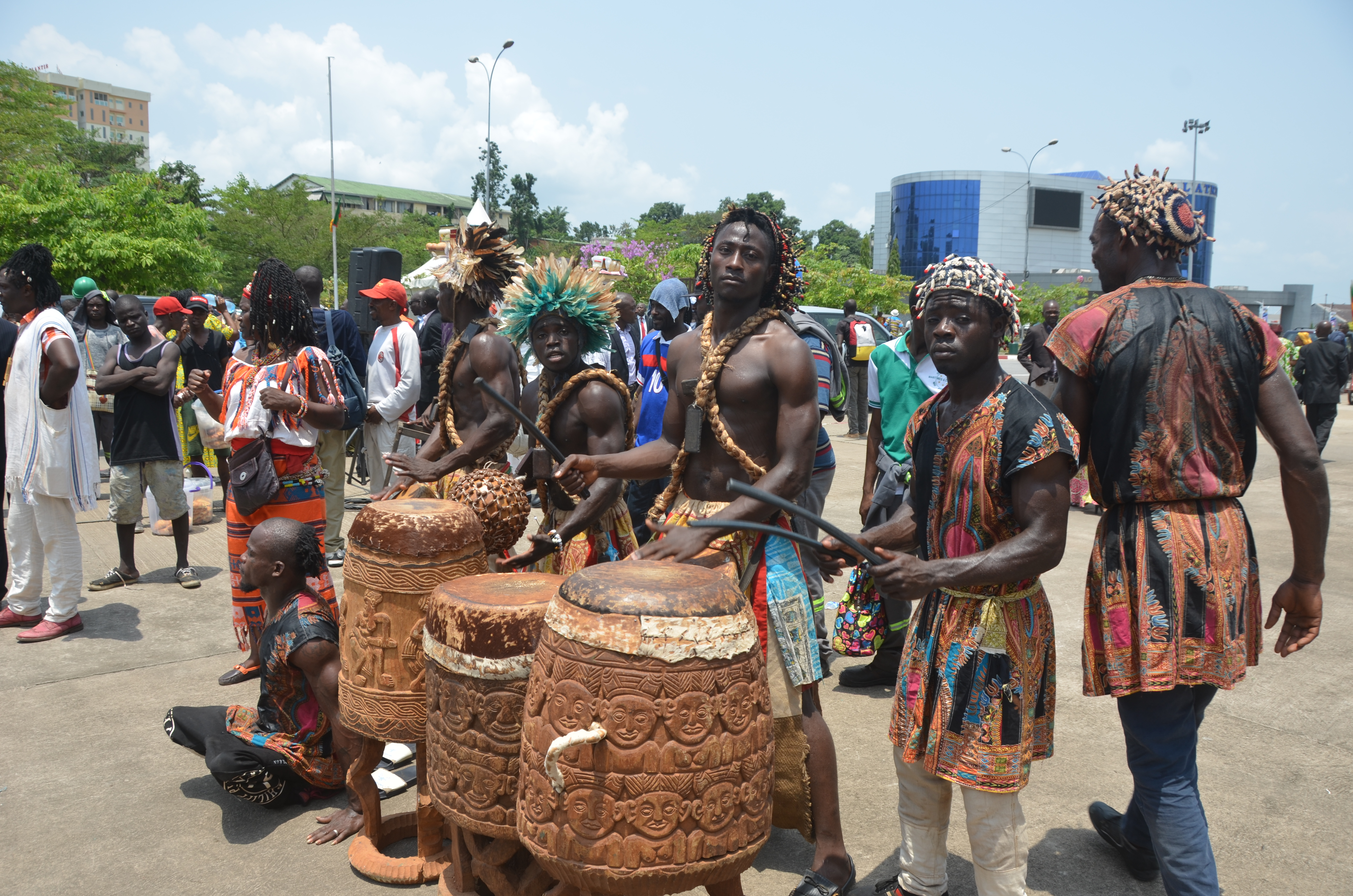 This is an image with the theme "Play" from: Cameroon